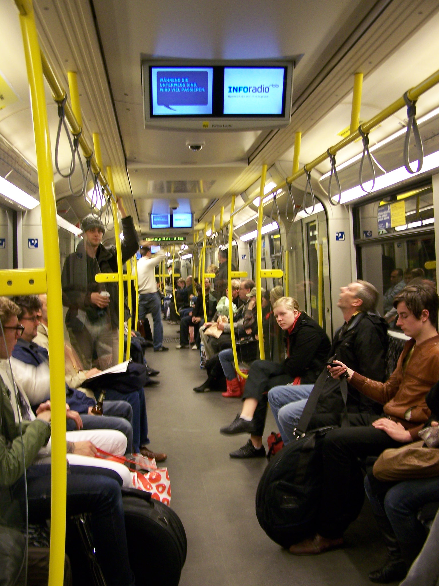 the television "Berliner Fenster" in a train of Berlin's U-Bahn